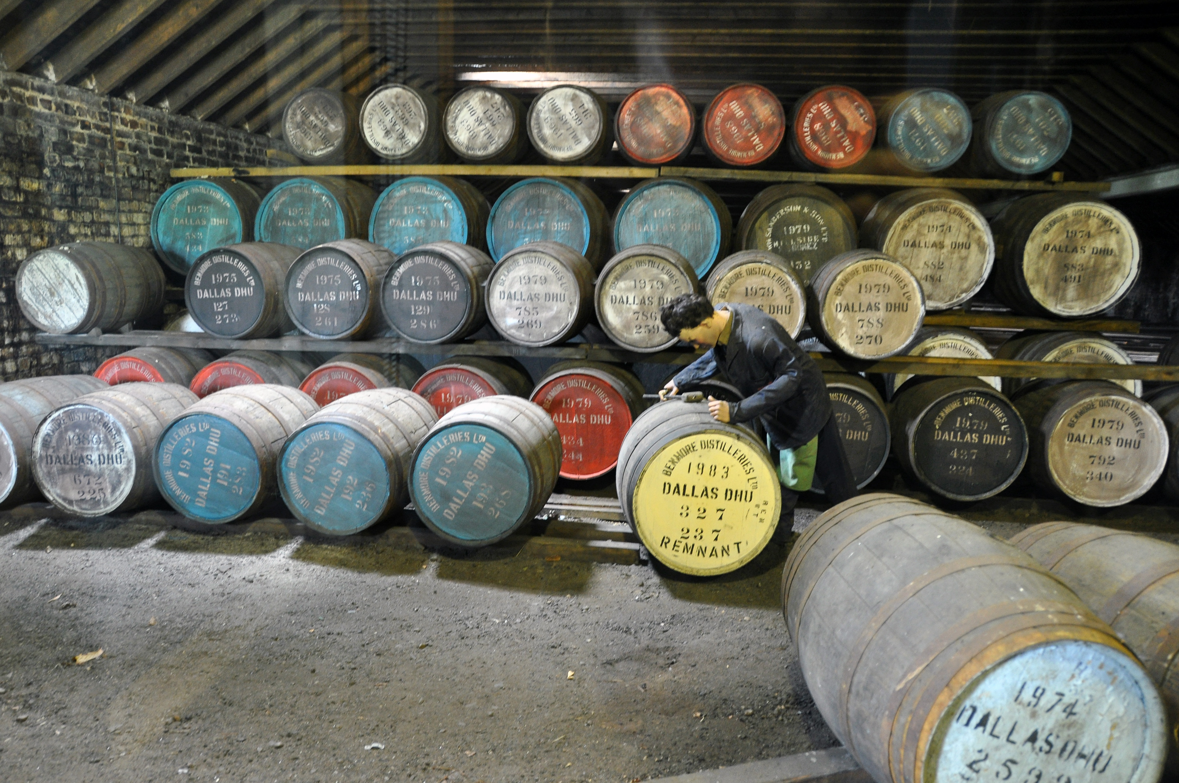 Whisky casks maturing at Dallas Dhu Distillery - or a representation of them